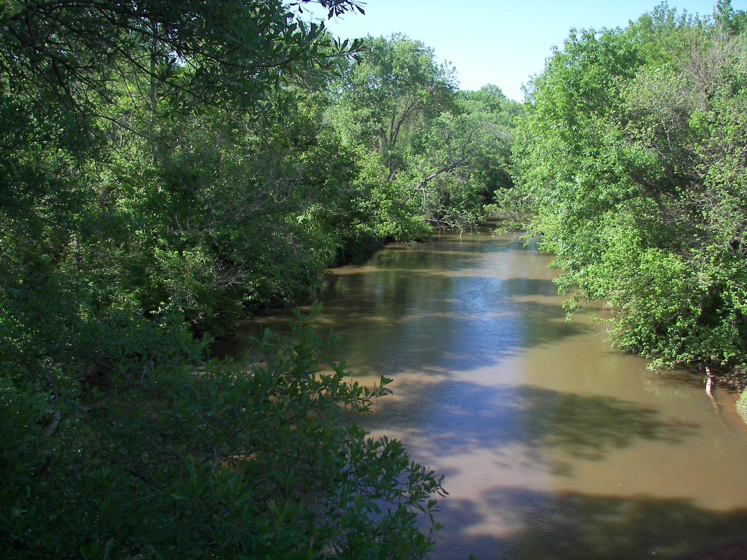 The Reedy River running through Lake Conestee Nature Park.